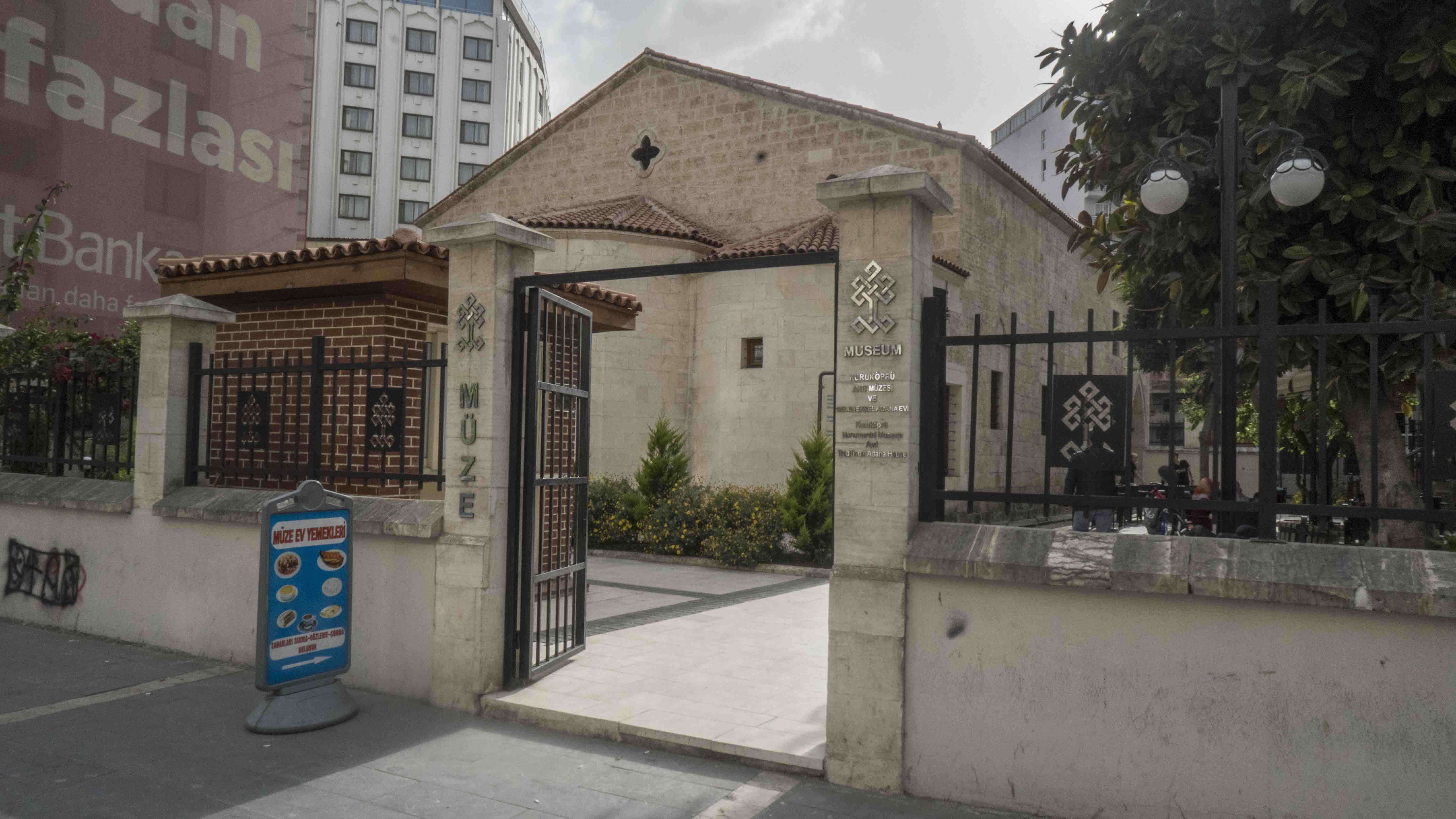 Adana ethnographic museum, formerly Kuruköprü Monumental Church Object location36° 59′ 22.55″ N, 35° 19′ 23.47″ E